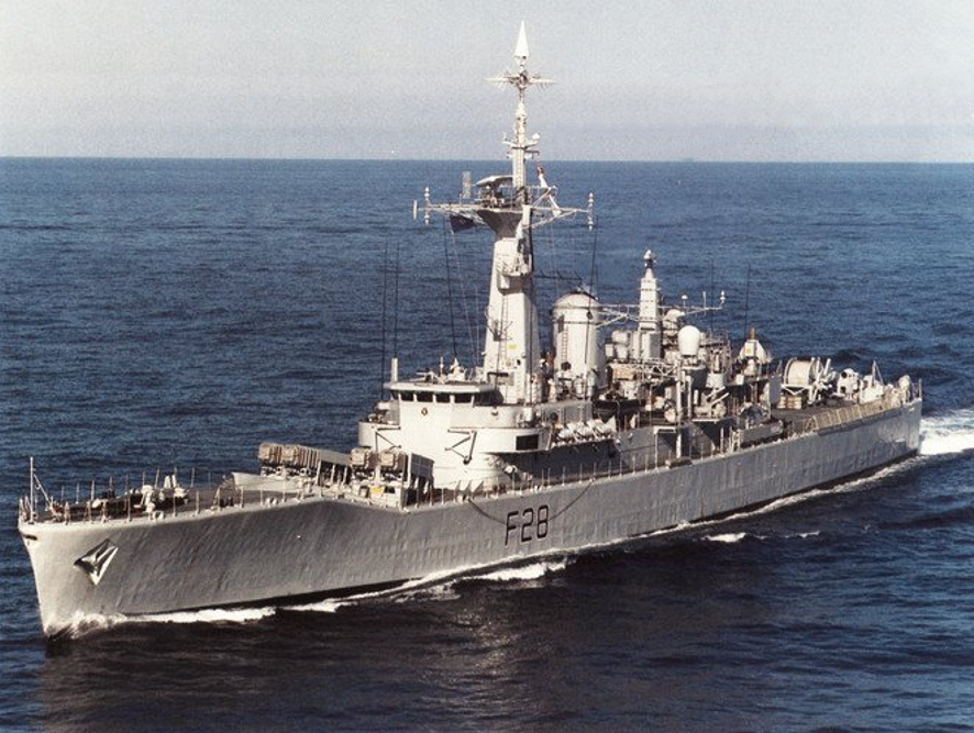 The Royal Navy frigate HMS Cleopatra (F28) underway during the NATO exercise North Star '91, in September 1991.